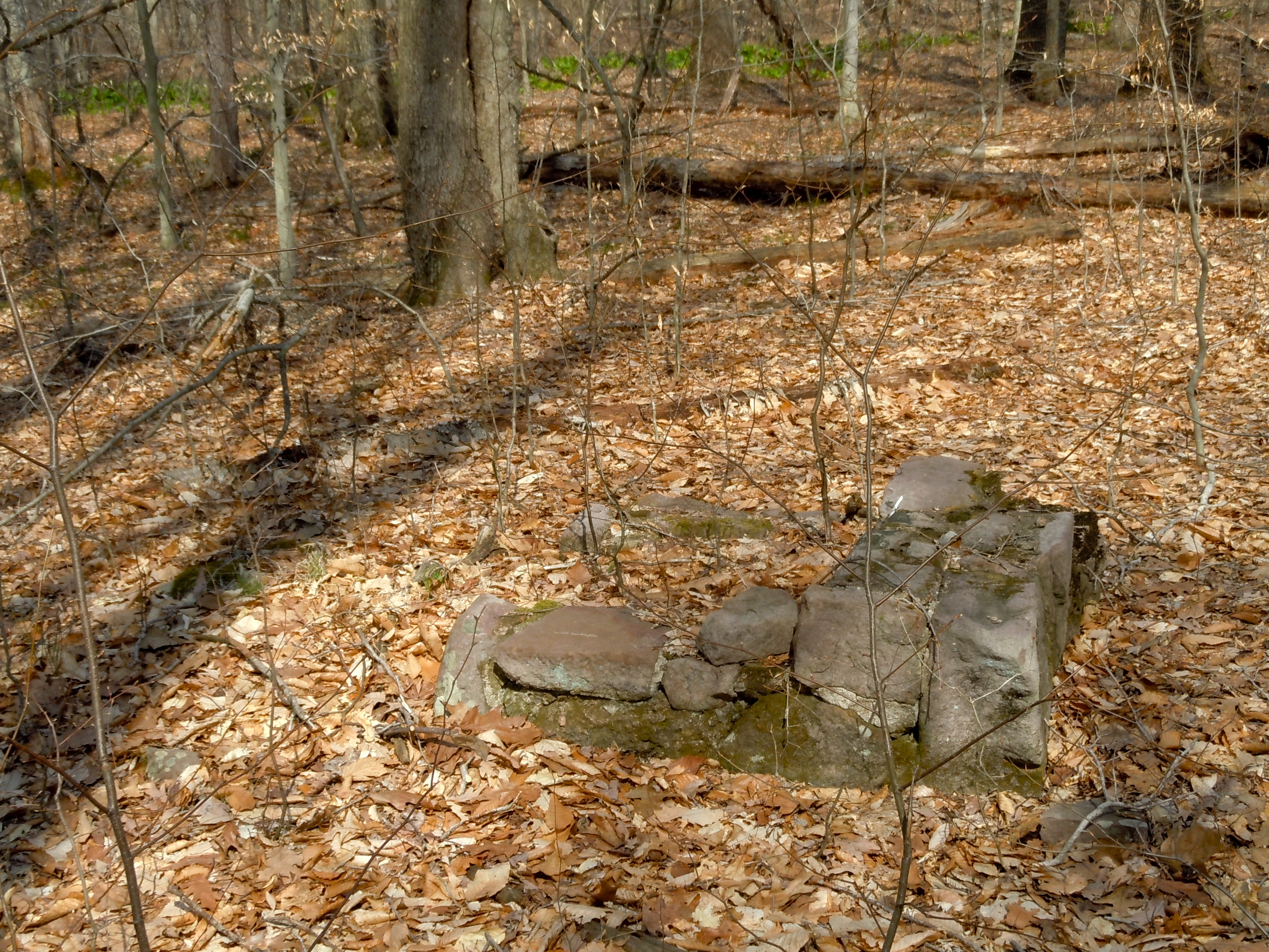 Apparently, foundation remnants in French Creek State Park, Pennsylvania. The area, now pretty much closed off, was known as French Creek State Park: Six Penny Day Use District and listed on the NRHP on February 11, 1987. Located 7 miles (11 km) northeast of Morgantown on Pennsylvania Route 345, Union Township, Berks County, Pennsylvania. The buildings there - beach shelters and such - have all fallen down and disappeared, but the pavement is still in pretty good shape, except covered with leaves and dirt. To get there driving south on 345, stop at the first (closed) gate after the north entrance to the park, on the right, which is right after a bridge. There's no parking there, but follow the path on foot to the parking lot. This and similar remnants are north of the "road" just north of the parking lot. I didn't make it all the way to the lake or the beach, but they are likely in pretty bad shape. Thanks to the friendly ranger who told me how to get there